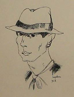 Self-portrait (cropped)